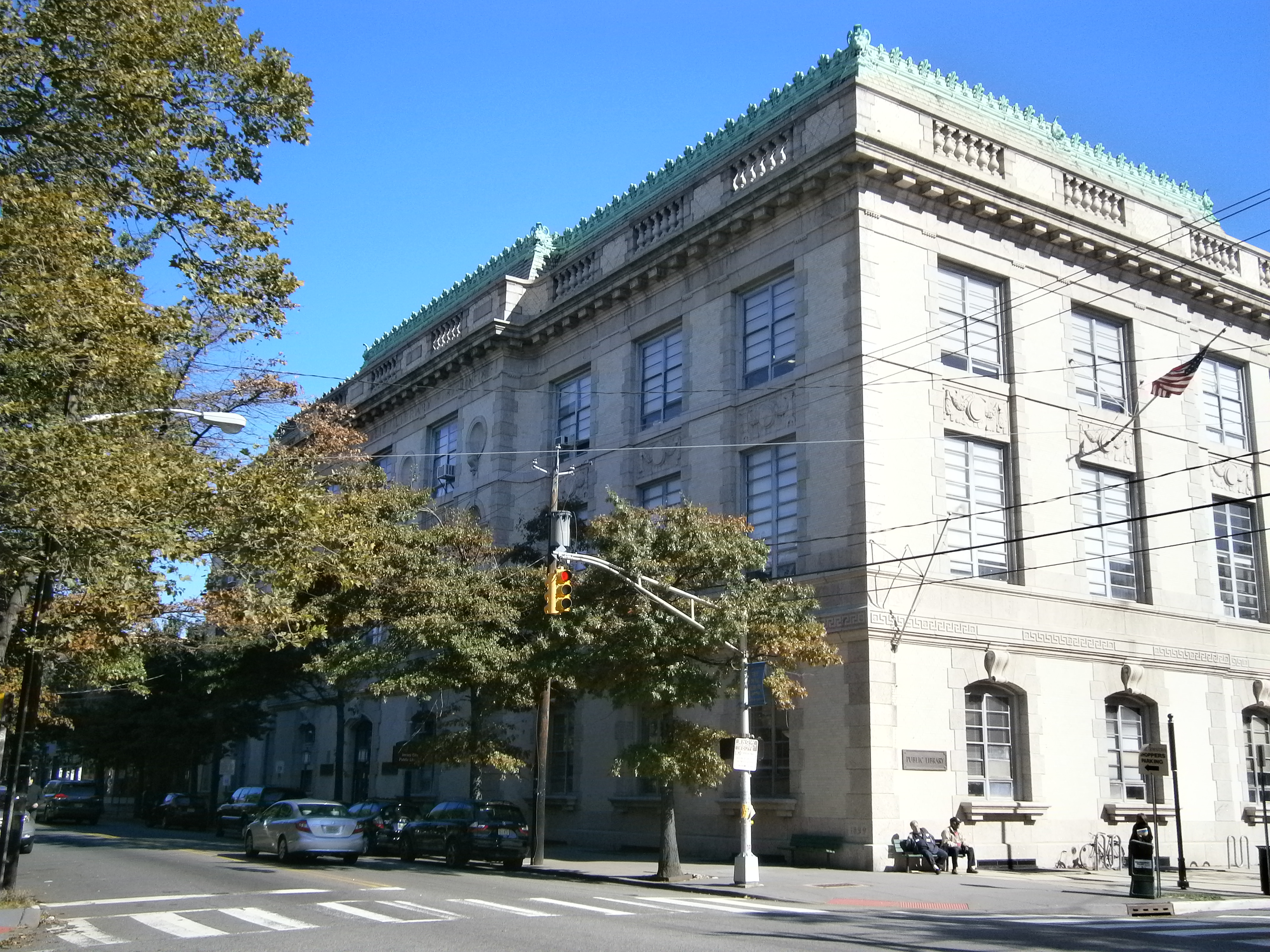 Jersey City Main Library at Van Vorst Park (Jersey & Montgomery)